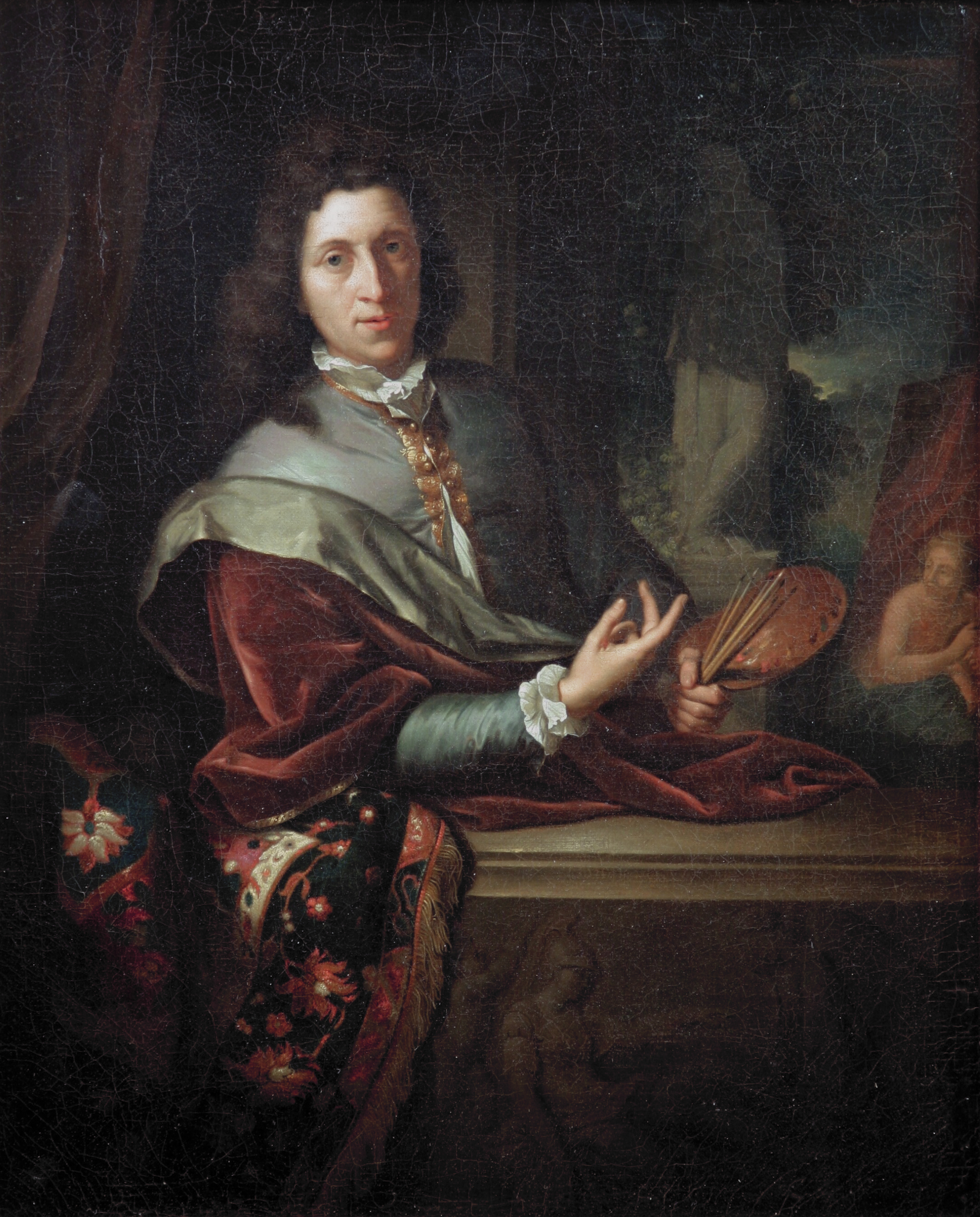 Self-portrait of Pieter van der Werff (1665-1722) oil on canvas 48,5 x 39,7 cm 1694